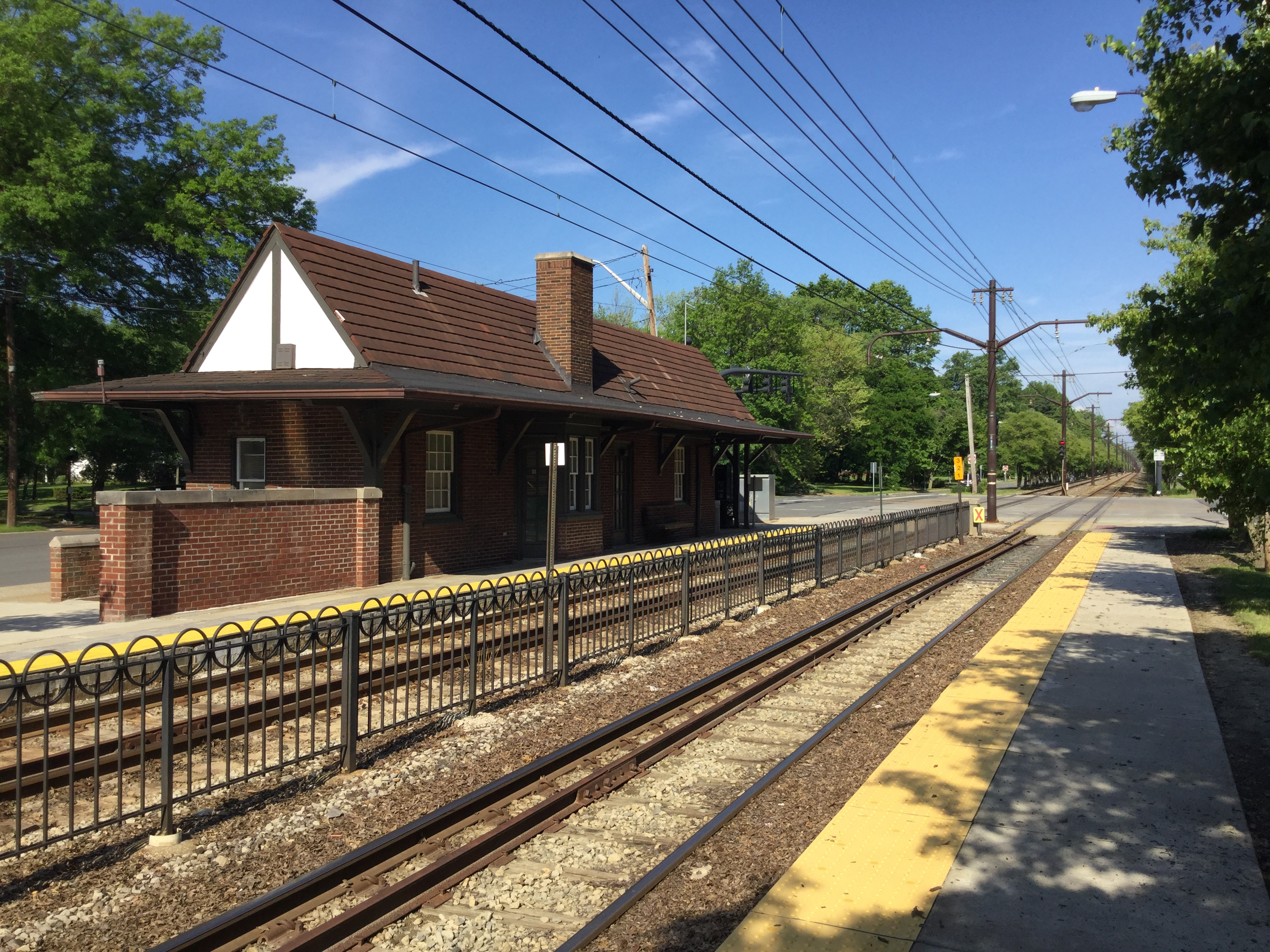 RTA station